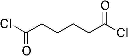 chemical structure of adipoyl chloride